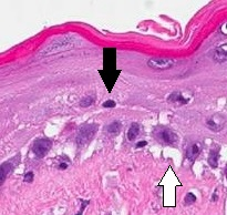 Vacuolar interface dermatitis, with lymphocytes in the dermis and epidermis (black arrow indicates one), and vacuolization (white arrow) at the dermoepidermal junction. In this case the cause was toxic epidermal necrolysis.